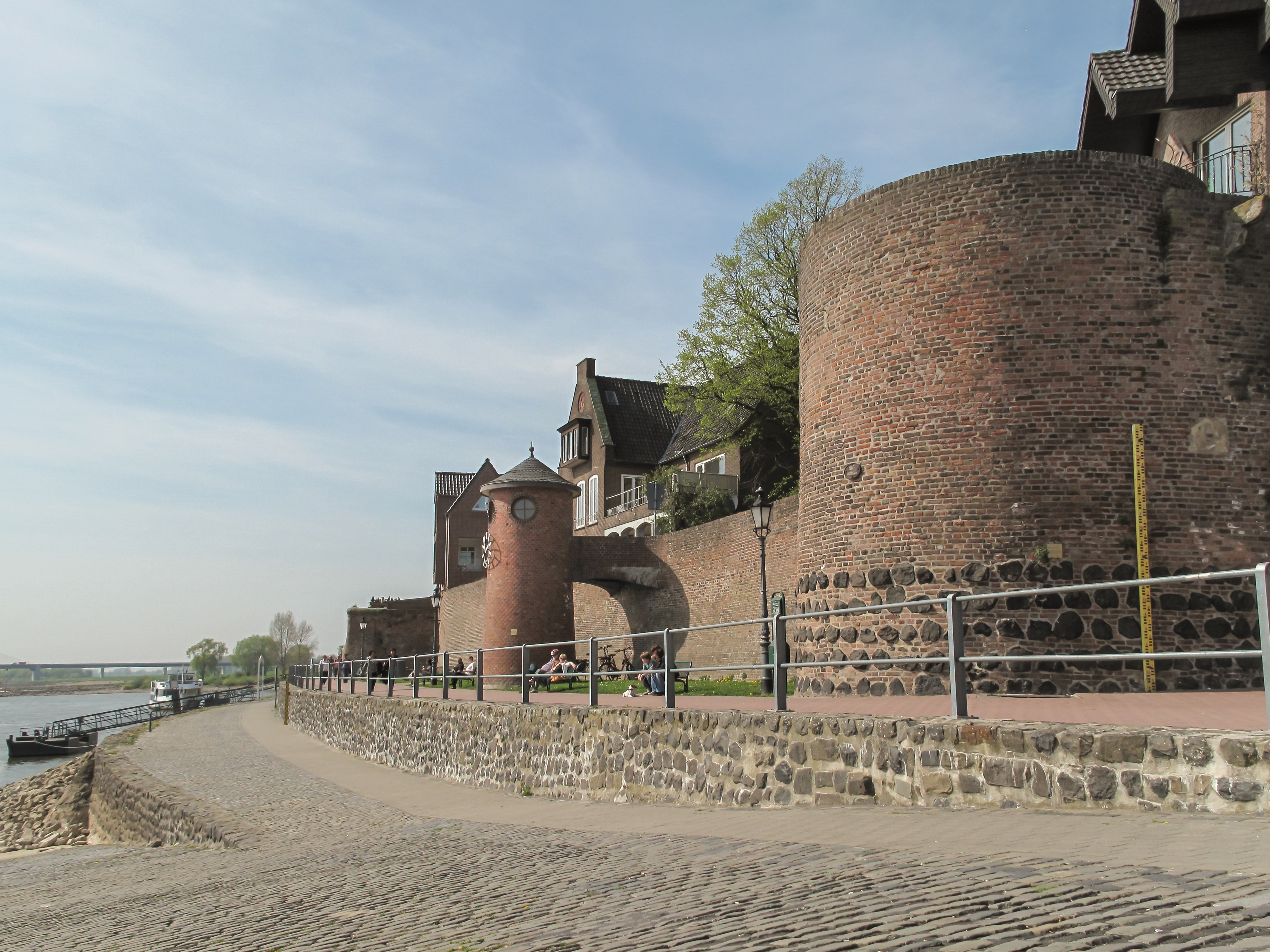 Rees, tower: Alter Zollturm